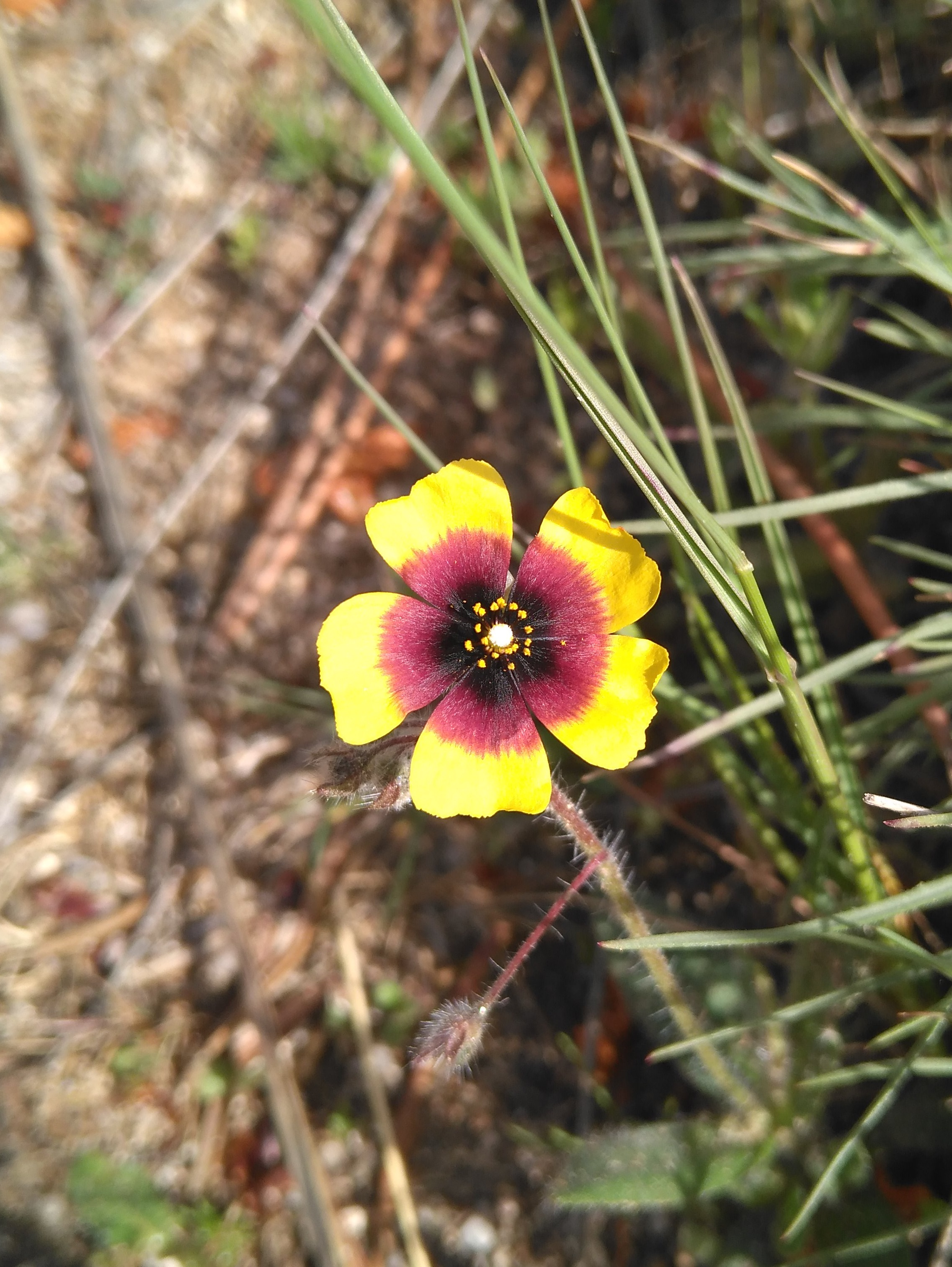 Tuberaria guttata (or Xolantha guttata; spotted rock-rose, annual rock-rose) in Bustarviejo, Community of Madrid.